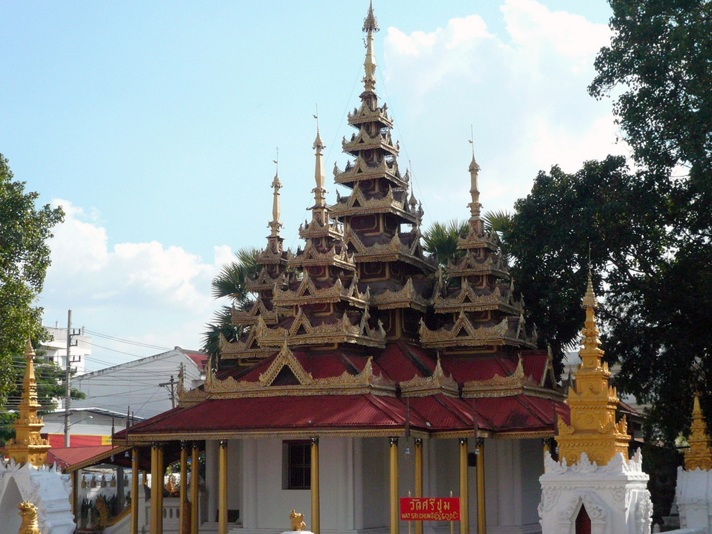 Burmese style Wat Srichum, Lampang, Thailand